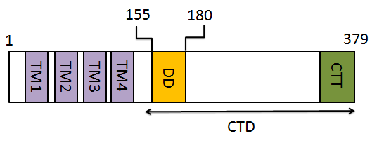 Human STING(Stimulator of Interferon genes) protein architecture